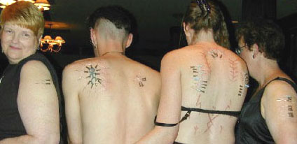 4 piercees at the Death Equinox '99 convention. Women with pierced arms on both sides, Claudius Reich and tournament organizer Jasmine Sailing with pierced backs in the center. Piercings by Bill Lemieux and Gene Santagada.